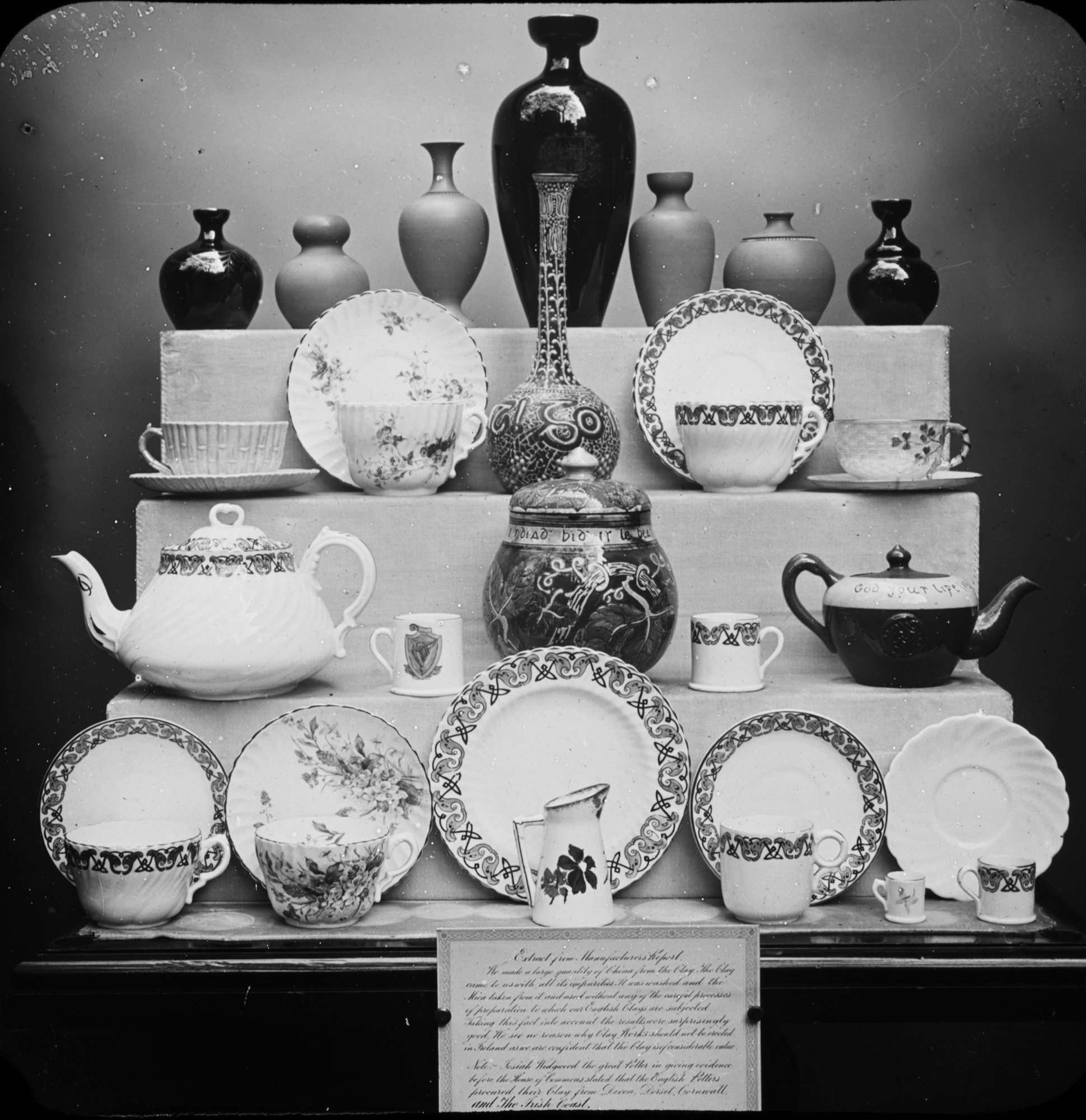 There may have been no cup after yesterdays All-Ireland match but there is no shortage of them here! A fine display of pottery and that lovely, old and now rarely used word, "Delph", reminding us of a town in Holland. With thanks in particular today to everyone, including [/photos/gnmcauley/ Niall McAuley], [/photos/91549360@N03/ O Mac] and [/photos/beachcomberaustralia/ beachcomber], there seems to be a solid consensus, supported by circumstantial and documentary evidence, that this Mason image was related to a display at the 1907 Irish International Exhibition. An exhibition we've visited before. Perhaps the most telling clues are the contemporary news article (catalogued by our friends in the National Library of Australia), that beachcomber highlights, and which seems to paraphrase the signage we see in this image, and the contemporary guidebook which [/photos/129555378@N07/ sharon.corbet] mentions below.... Photographer: Thomas H. Mason Collection: Mason Photographic Collection Date: Catalogue range c.1890-1910. Most likely c.1907 NLI Ref: M9/14 You can also view this image, and many thousands of others, on the NLI’s catalogue at